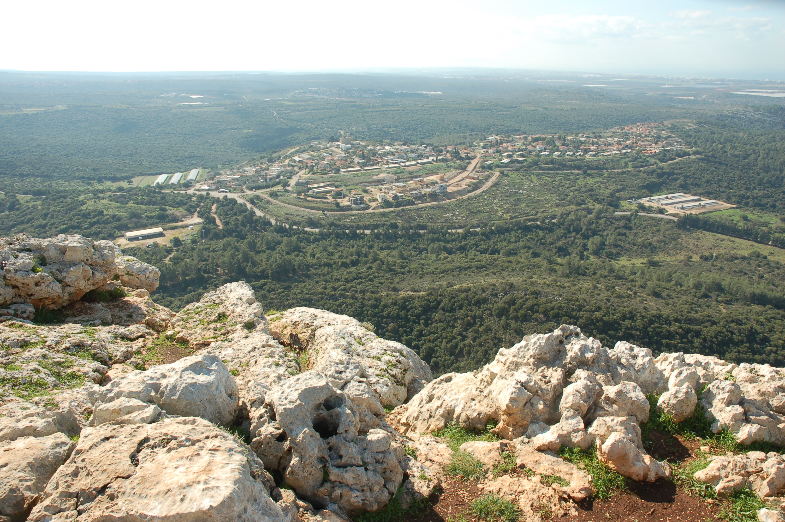 At Ma'arat HaKeshet (Arch Cave) in Park Adamit overlooking the Western Galilee